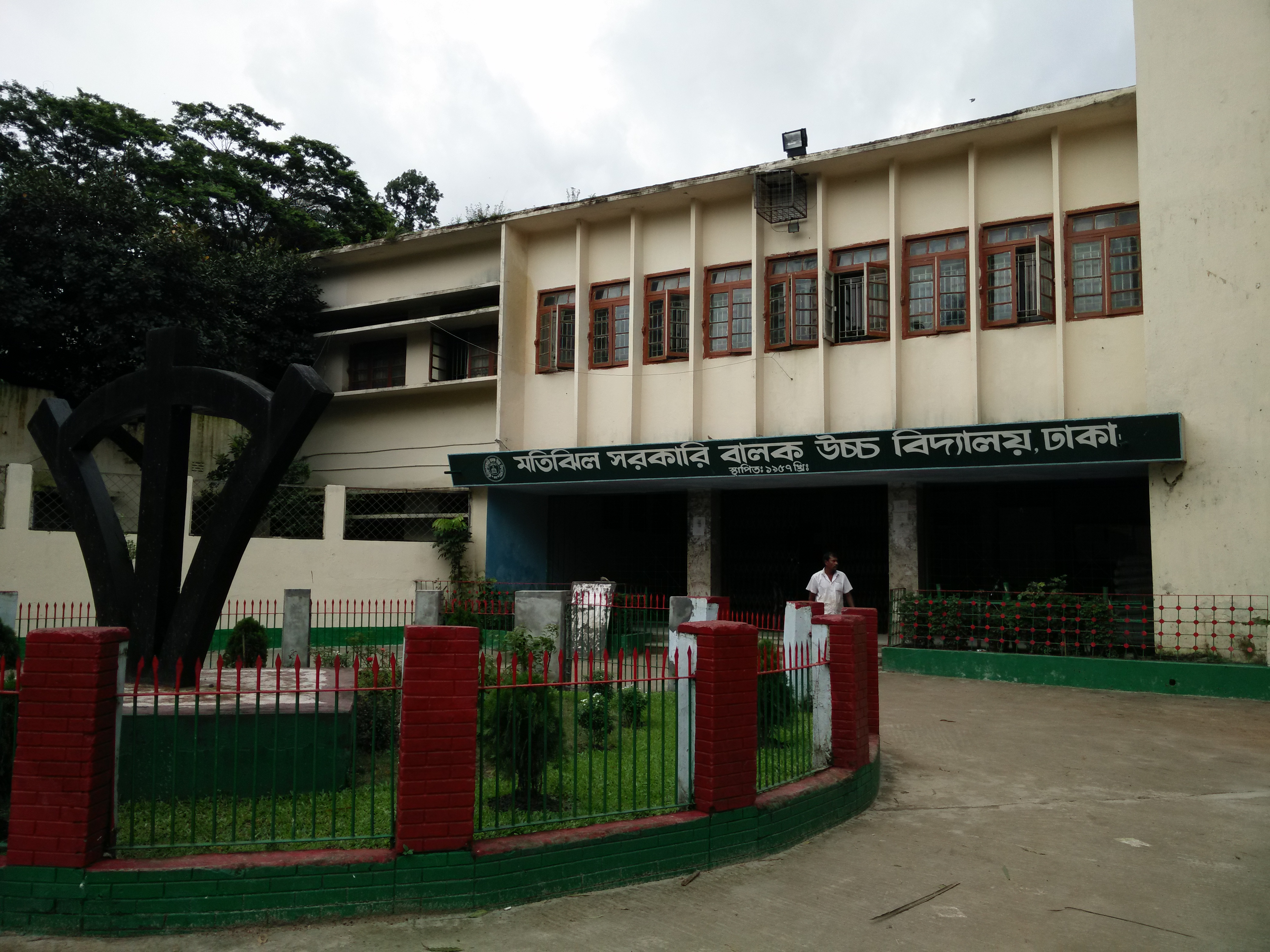 Entrance of Motijheel Govt. Boys High School at Motijheel, Dhaka.